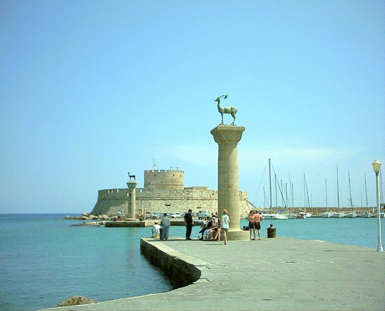 Rhodes harbour, Greece.